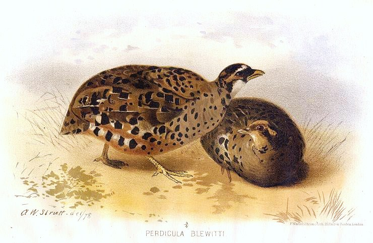 Perdicula blewitti = Perdicula erythrorhyncha blewitti (Northern Painted Bush Quail)